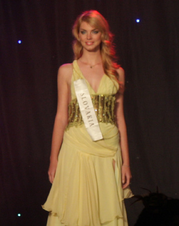 Miss Slovakia 2008 Edita Kresakova